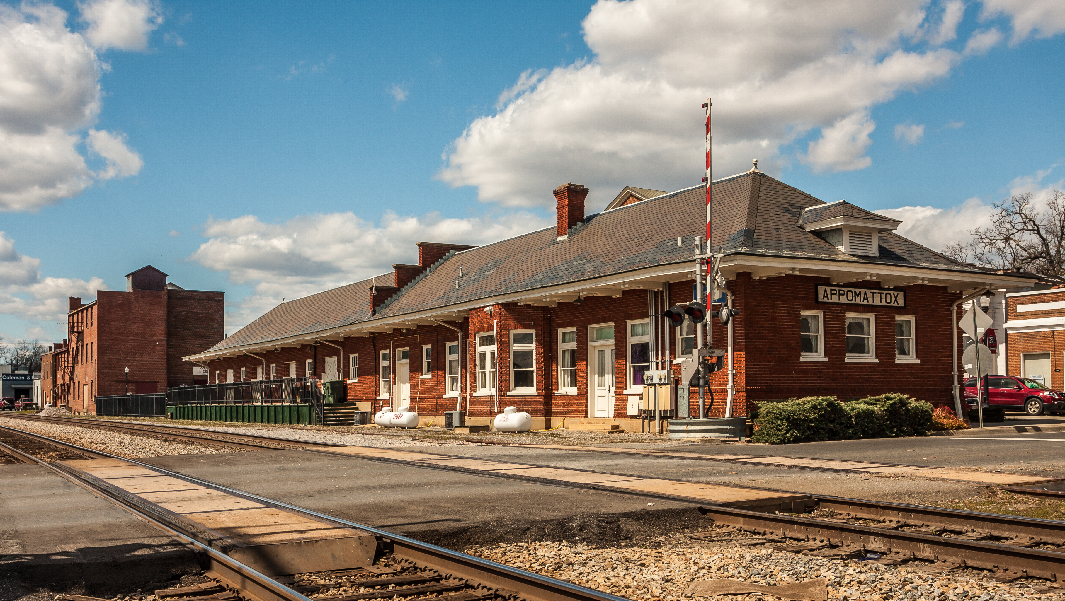 view of the Appomattox Visitor Center at Church and Main Streets from across the tracks